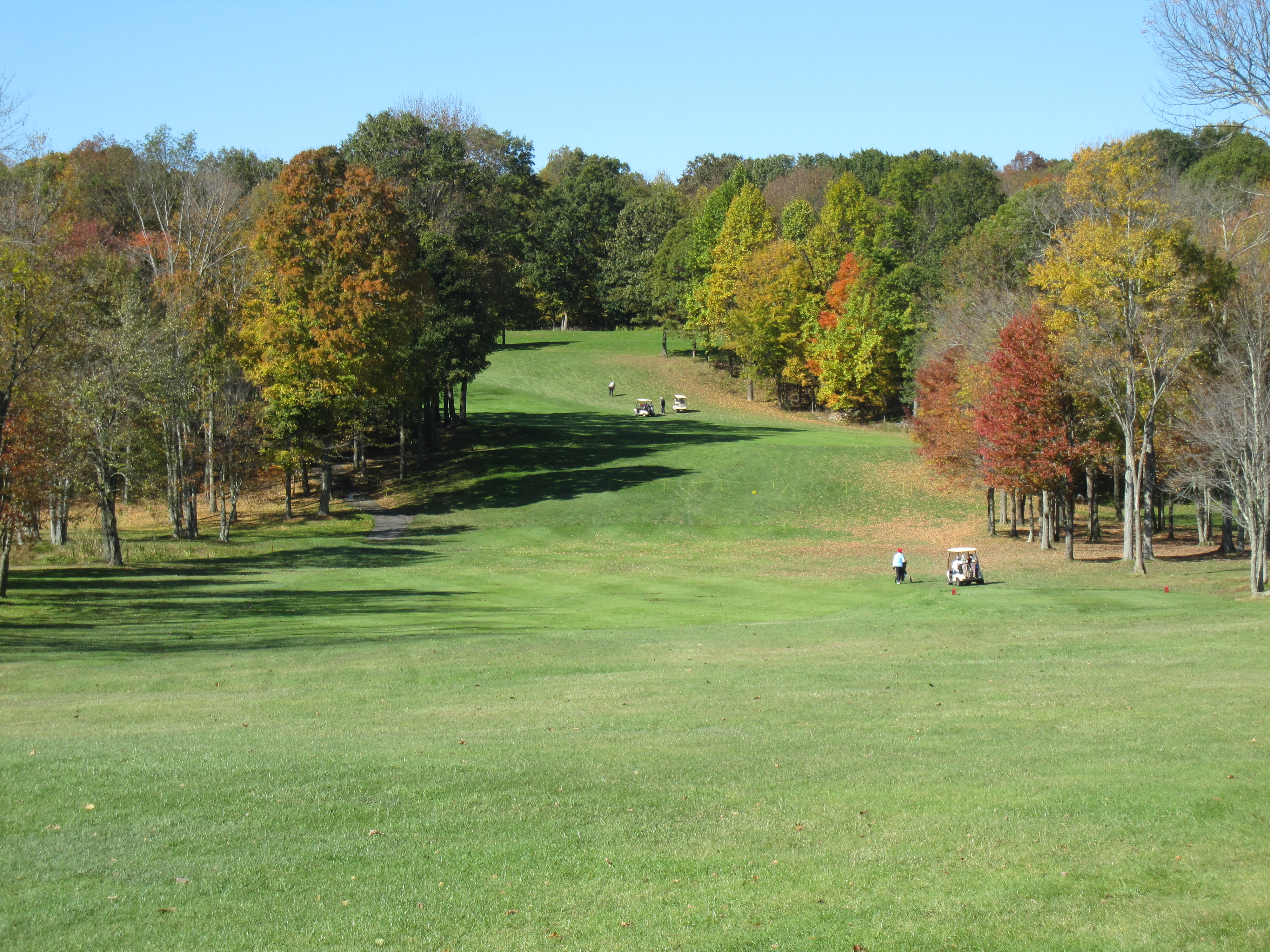 This is a picture from the sixth hole at the Ridgefield Golf Course, CT. The picture is taken from the men's tee box.